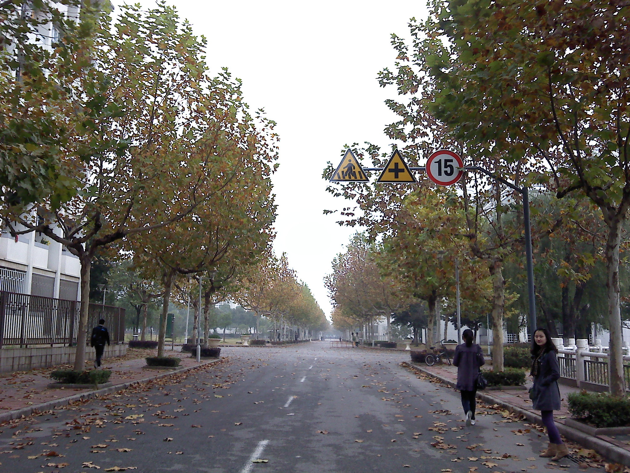 Beautiful Nanjing Normal University